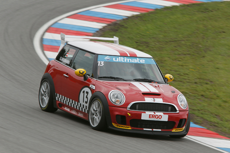 MINI Challenge, Brno (CZ)